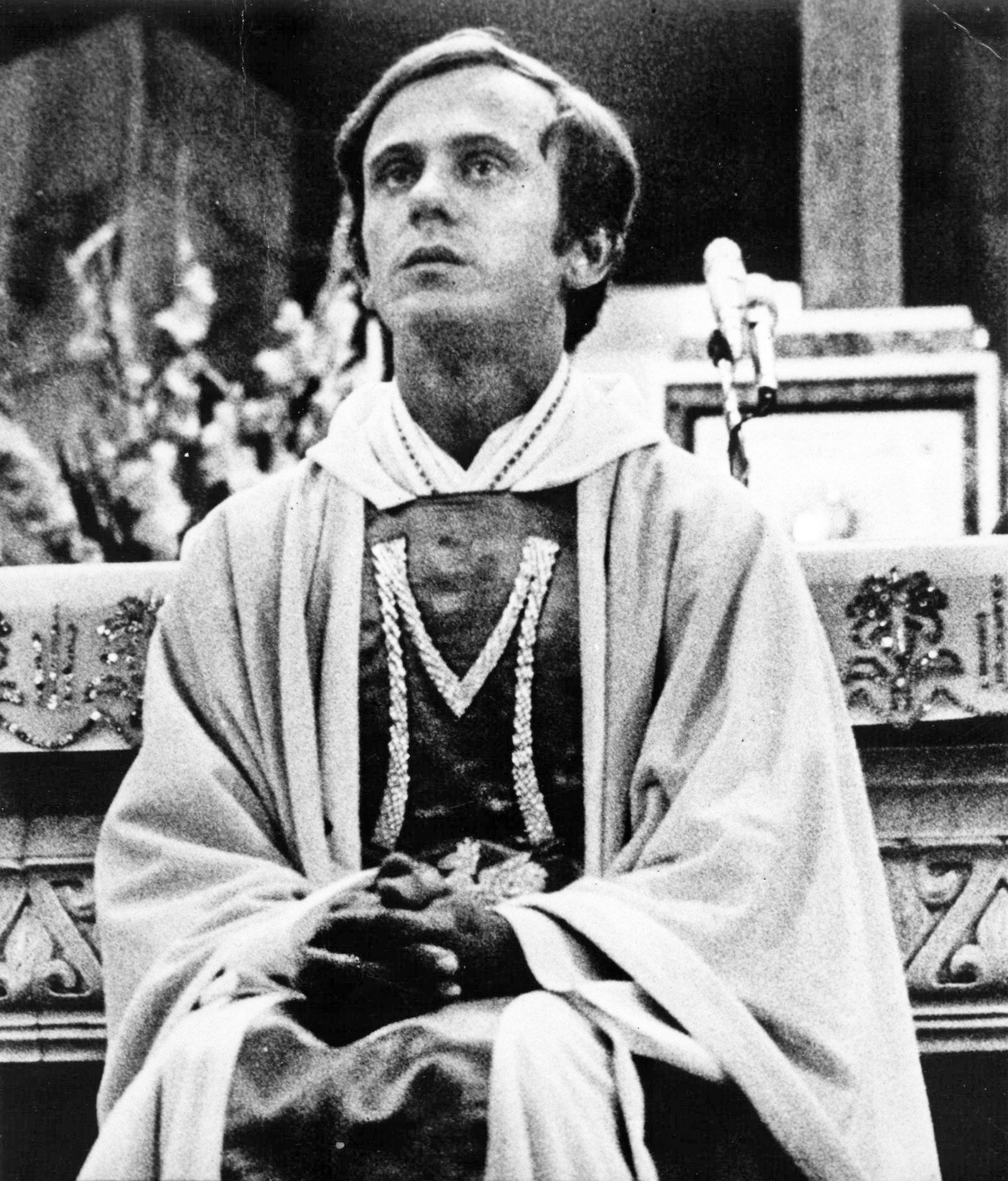 Jerzy Popiełuszko (1947-1984) catholic priest from Poland, associated with the "Solidarity" union, murdered by the communist internal intelligence agency, the Służba Bezpieczeństwa